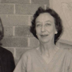 Miss Ashburn retirement announcement in 1964. Ida Nancy Ashburn (3 August 1909–20 October 1980) was an Australian head-mistress and nurse